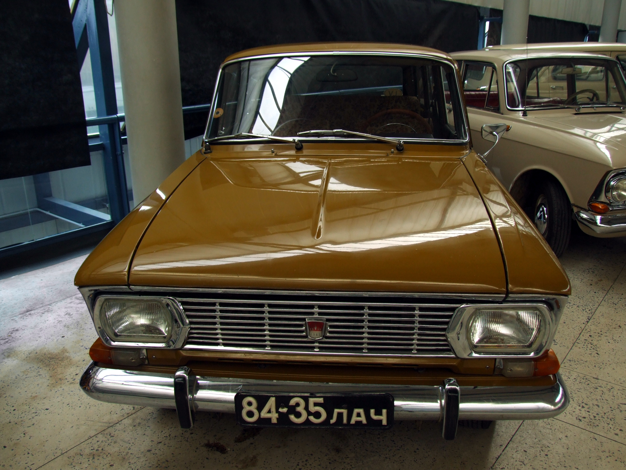 Moskvich 426 E (Москвич-426 Э)